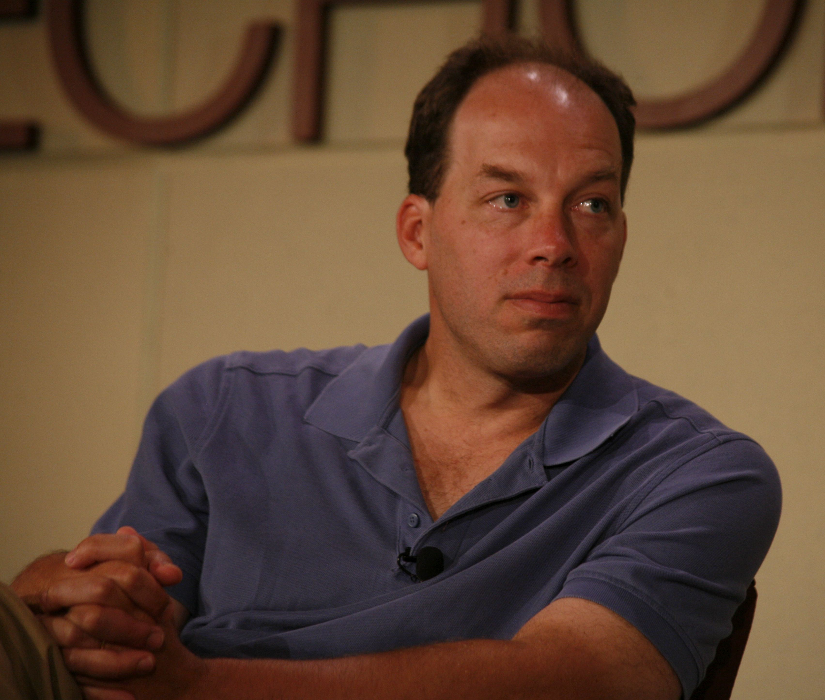 Reinventing Life Sciences: Realizing the full potential of the New Biology Speaker: Stephen Quake, Stanford University Introduced by: Rodney Pearlman, RPM Pharma Joined by: Brook Byers, Kleiner Perkins Caufield & Byers Susan Desmond-Hellmann, UCSF